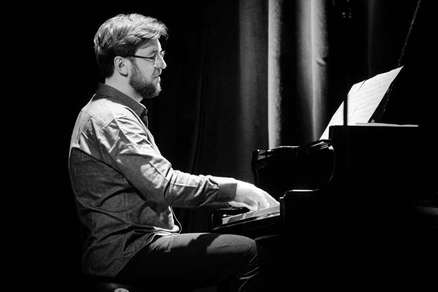 Krzysztof Dys with Adam Bałdych Quartet at Cosmopolite. The concert took place on 02. February 2018 in Oslo. Lineup: Adam Baldych (violin), Krzysztof Dys (piano), Michał Barański (double bass) and Dawid Fortuna (percussion).